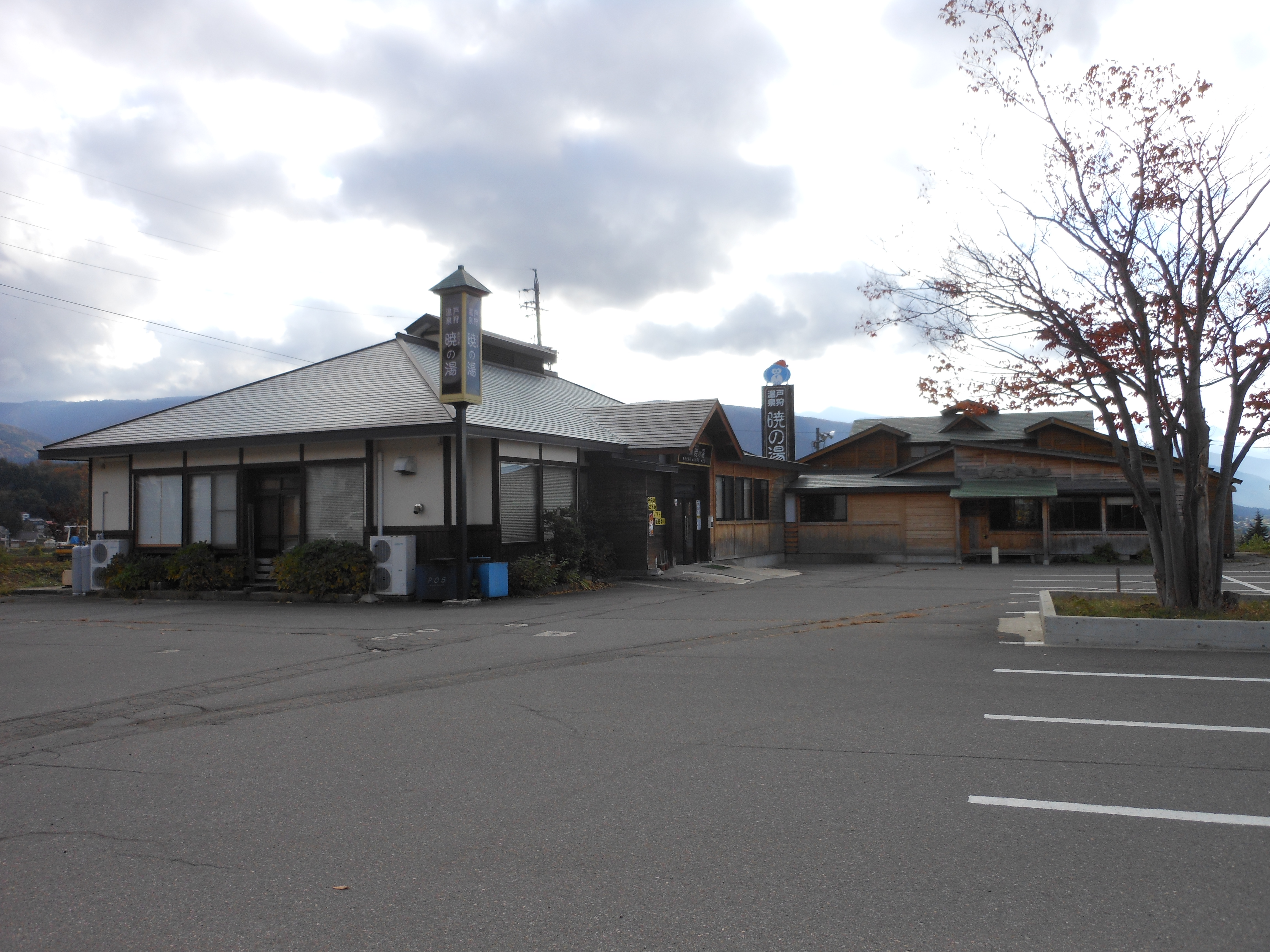 This is the Akatsuki no Yu of Togari spa in Iiyama, Nagano, Japan.